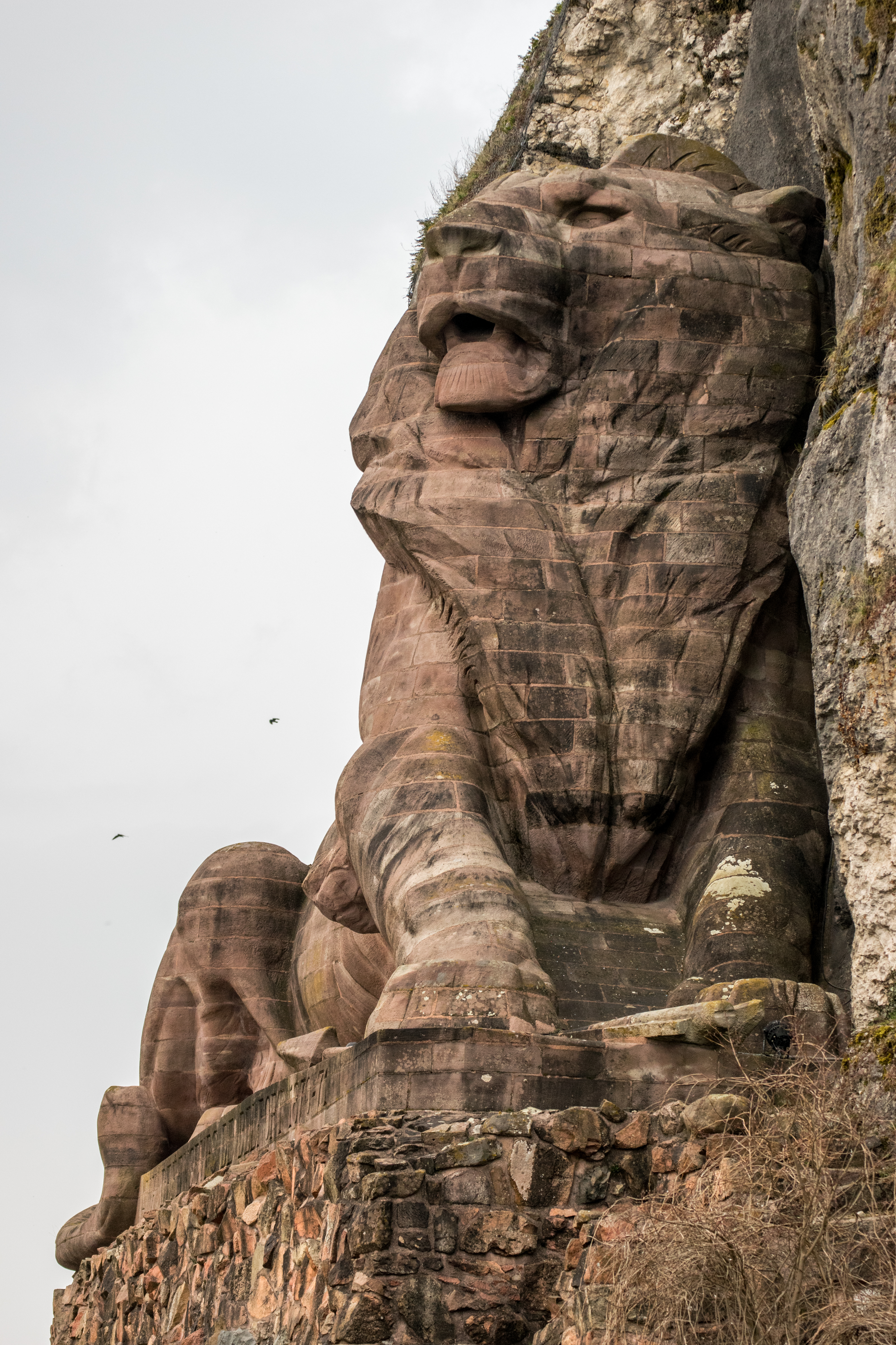 The face of the Lion of Belfort (in Belfort, France)